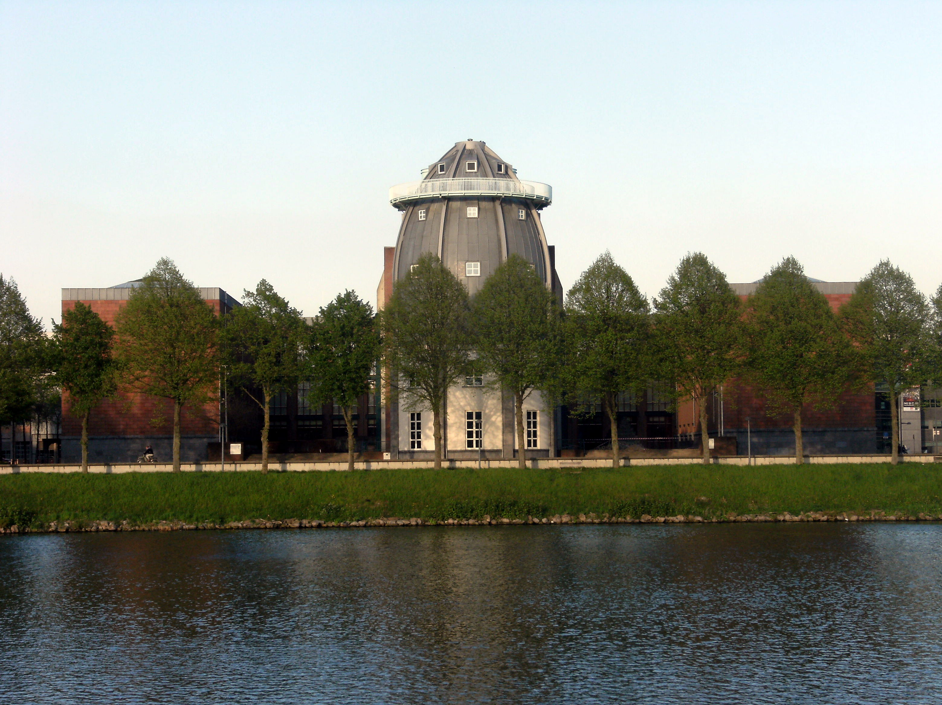 2013-05-04 in Maastricht. Céramique seen from West bank of the Meuse. Bonnefantenmuseum.